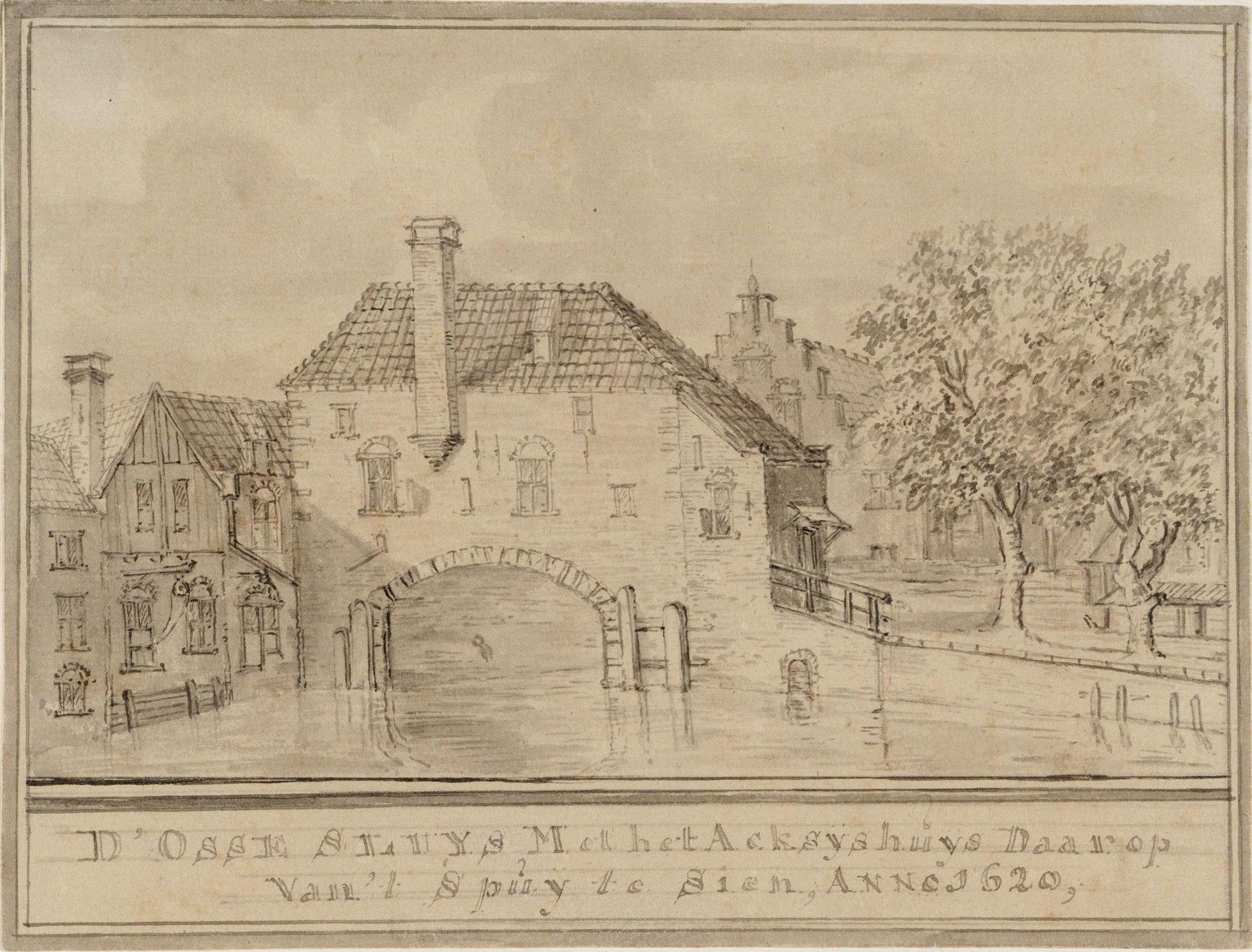 Osjessluis, Spui, Amsterdam.